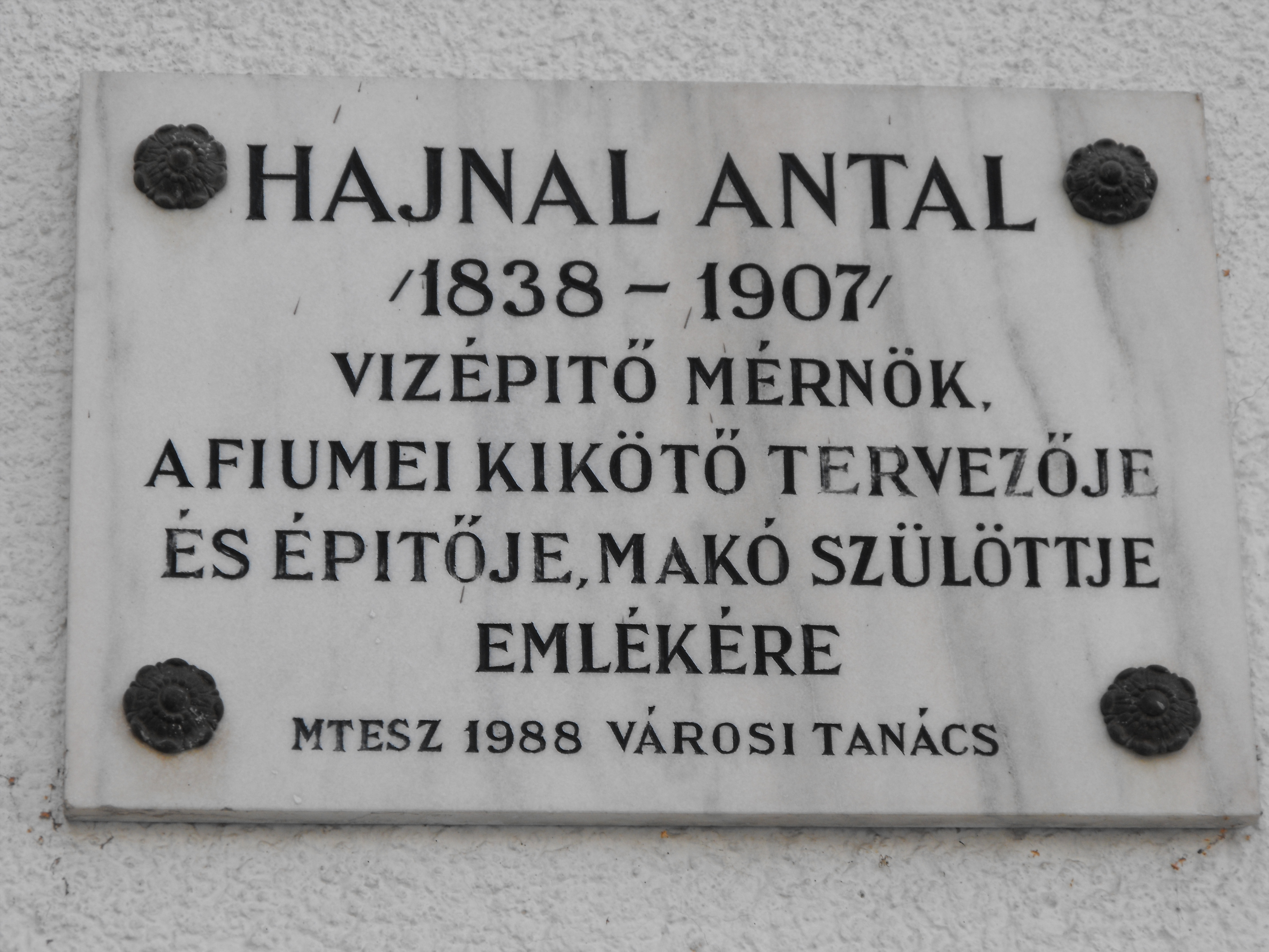 Memorial tablet of Antal Hajnal, engineer, designer of the port of Fiume (Rijeka) in Makó, Hungary.